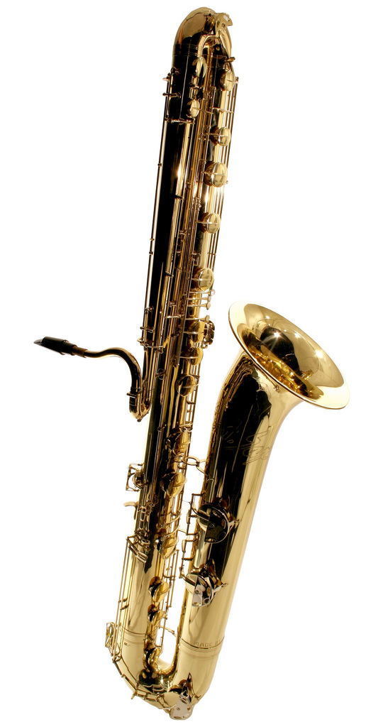 The contrabass sax is one of the physically largest woodwind instruments. The range is down to low concert D-flat, an octave below the baritone sax; two octaves below the alto.